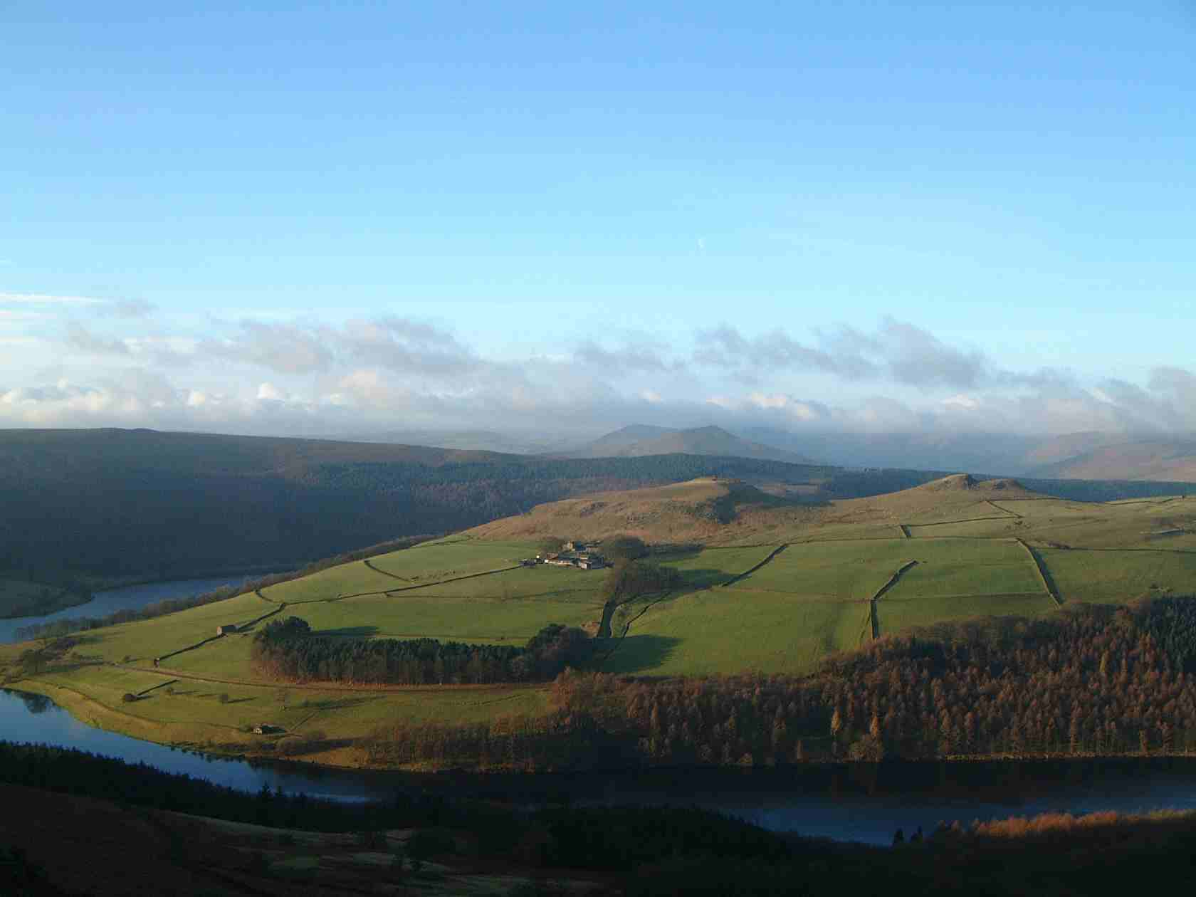 Personal photograph taken on January 21st 2006 by Mick Knapton